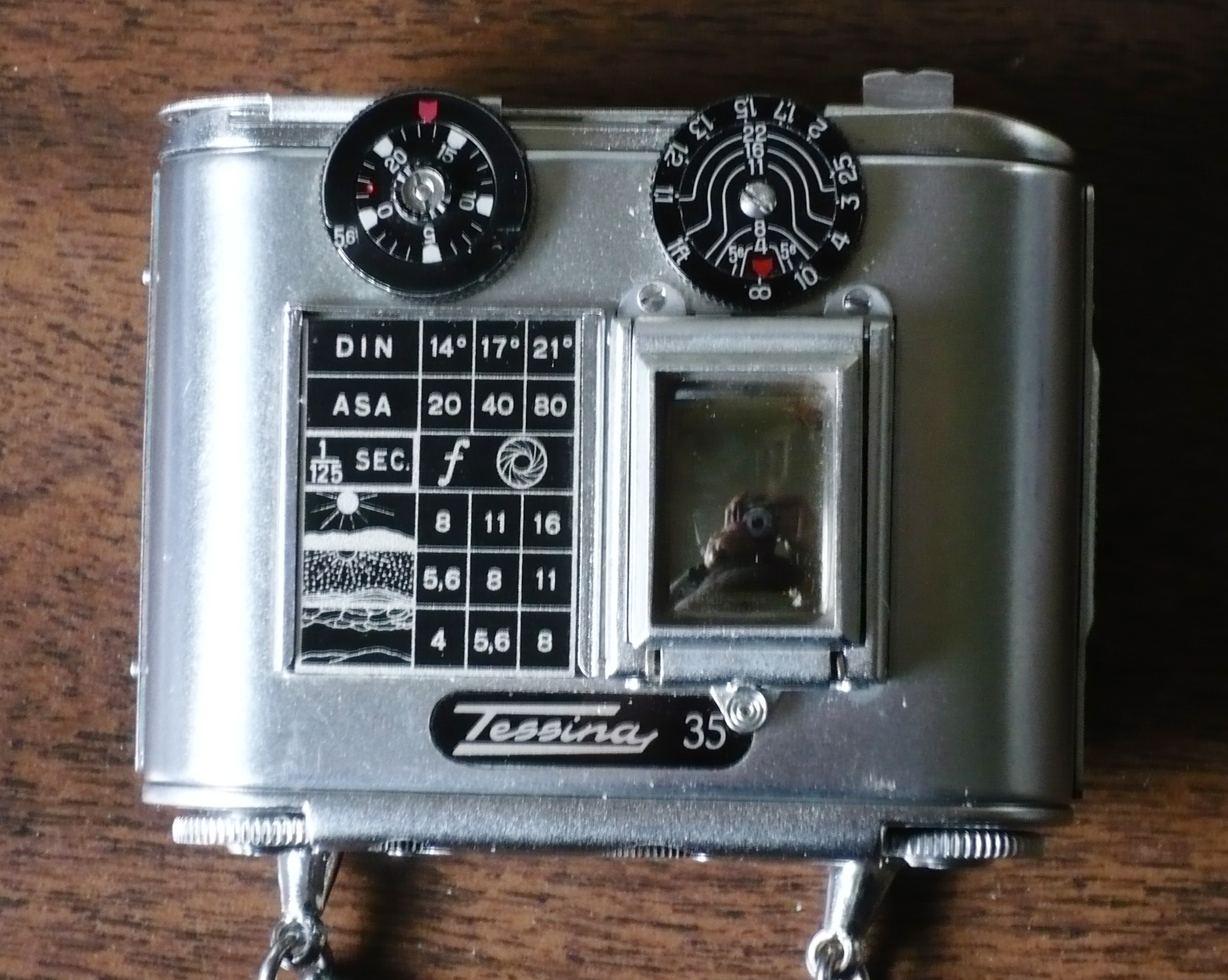 Tessina 35